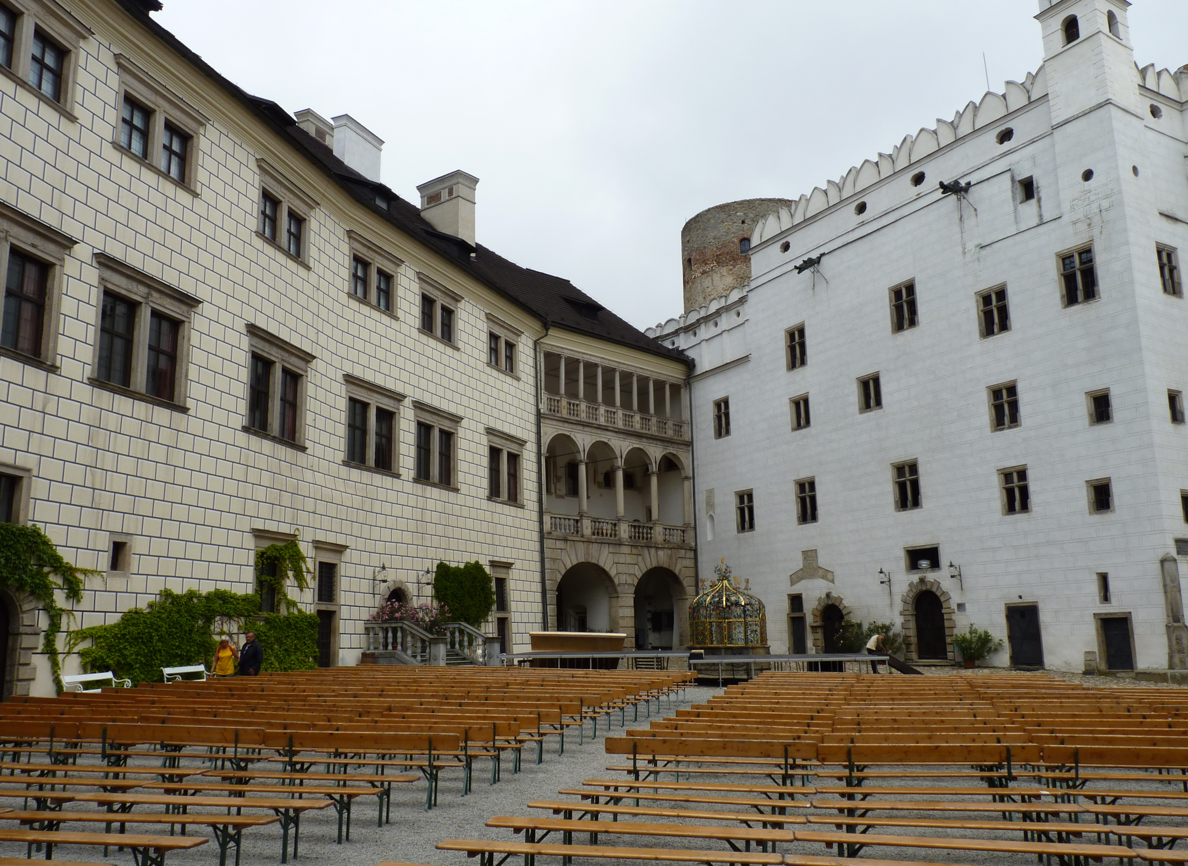 Castle in Jindřichův Hradec. Jindřichův Hradec District, South Bohemian Region, Czech Republic